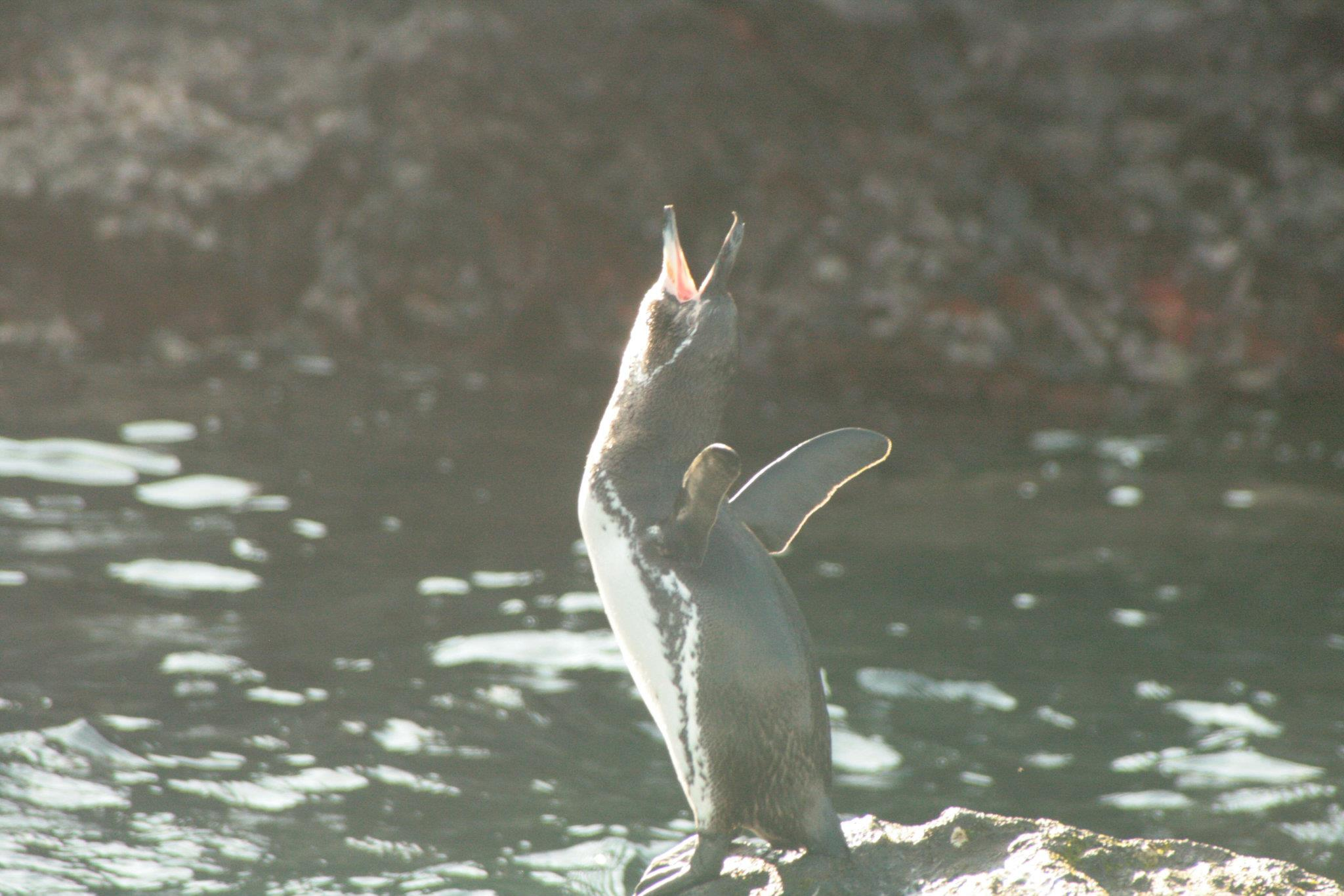 A Galapagos Penguin in the midst of its mating call